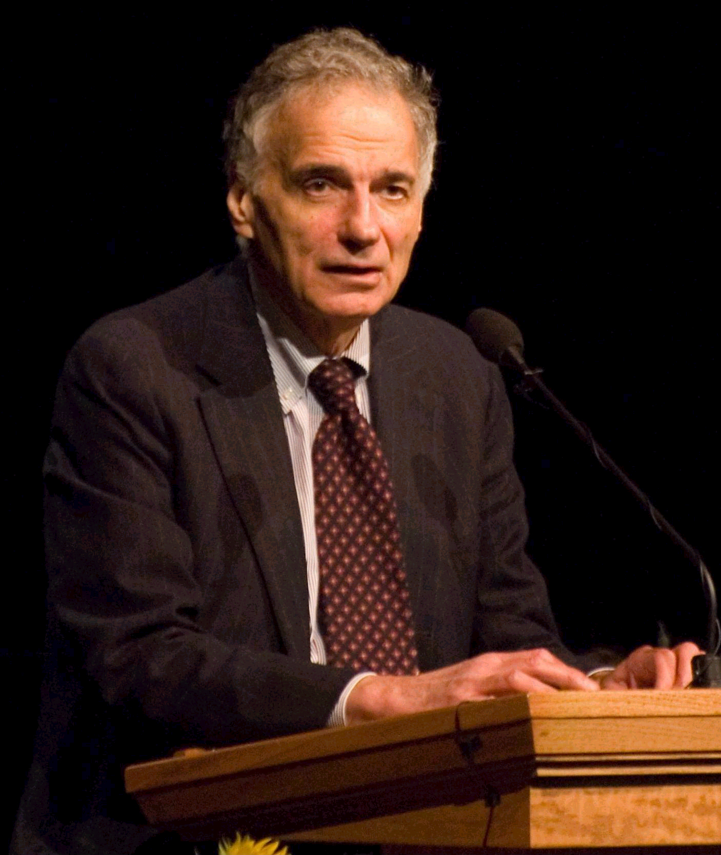 Ralph Nader, speaking at BYU's Alternate Commencement